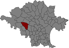 Location of Cistella in Alt Empordà